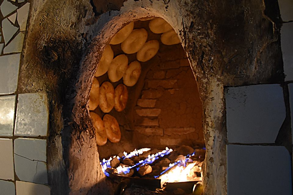 Modern tandoor in Uzbekistan